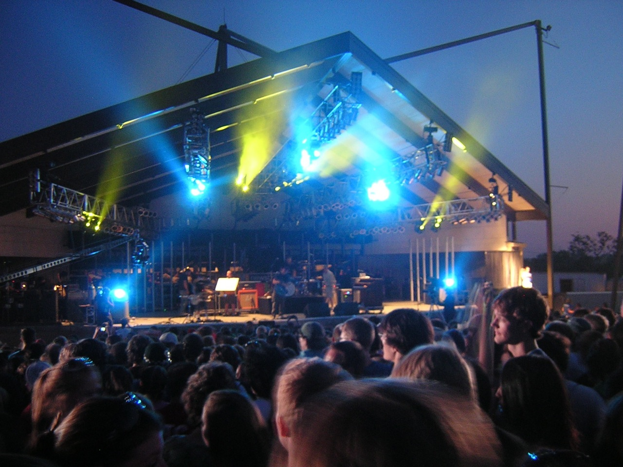 Ichthus Main Stage